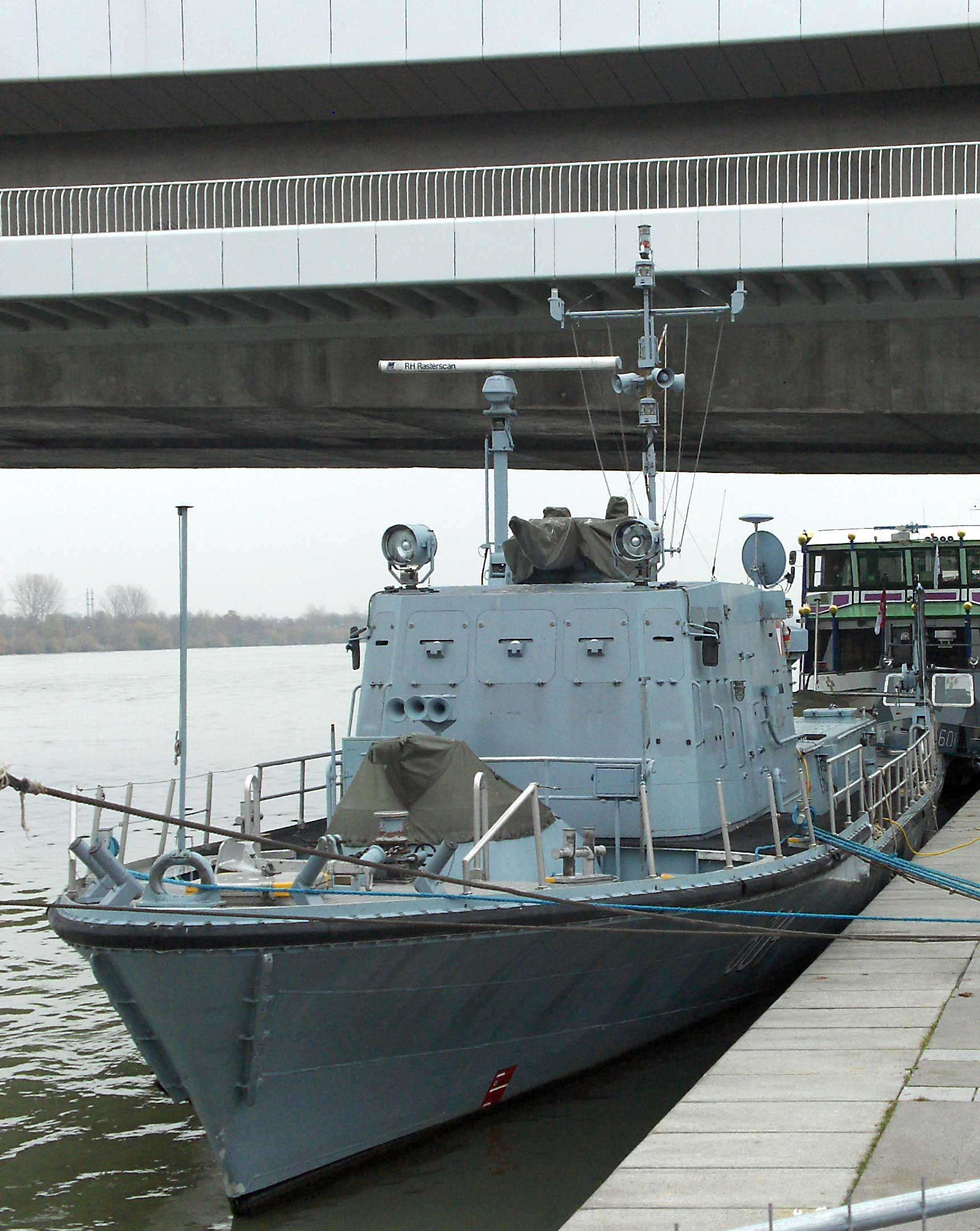 The Niederösterreich, one of the last 2 patrol boats of the Austrian Army, moored beneath the Reichsbrücke in Vienna